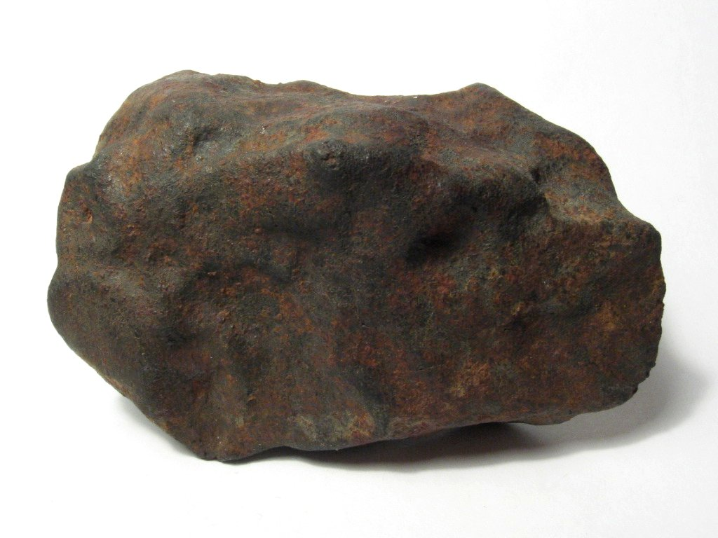 A 300g individual of the Gao-Guenie meteorite shower. Gao-Guenie is a ordinary chondrite (H5) that fell on 1960 March 1960 in Burkina Faso.